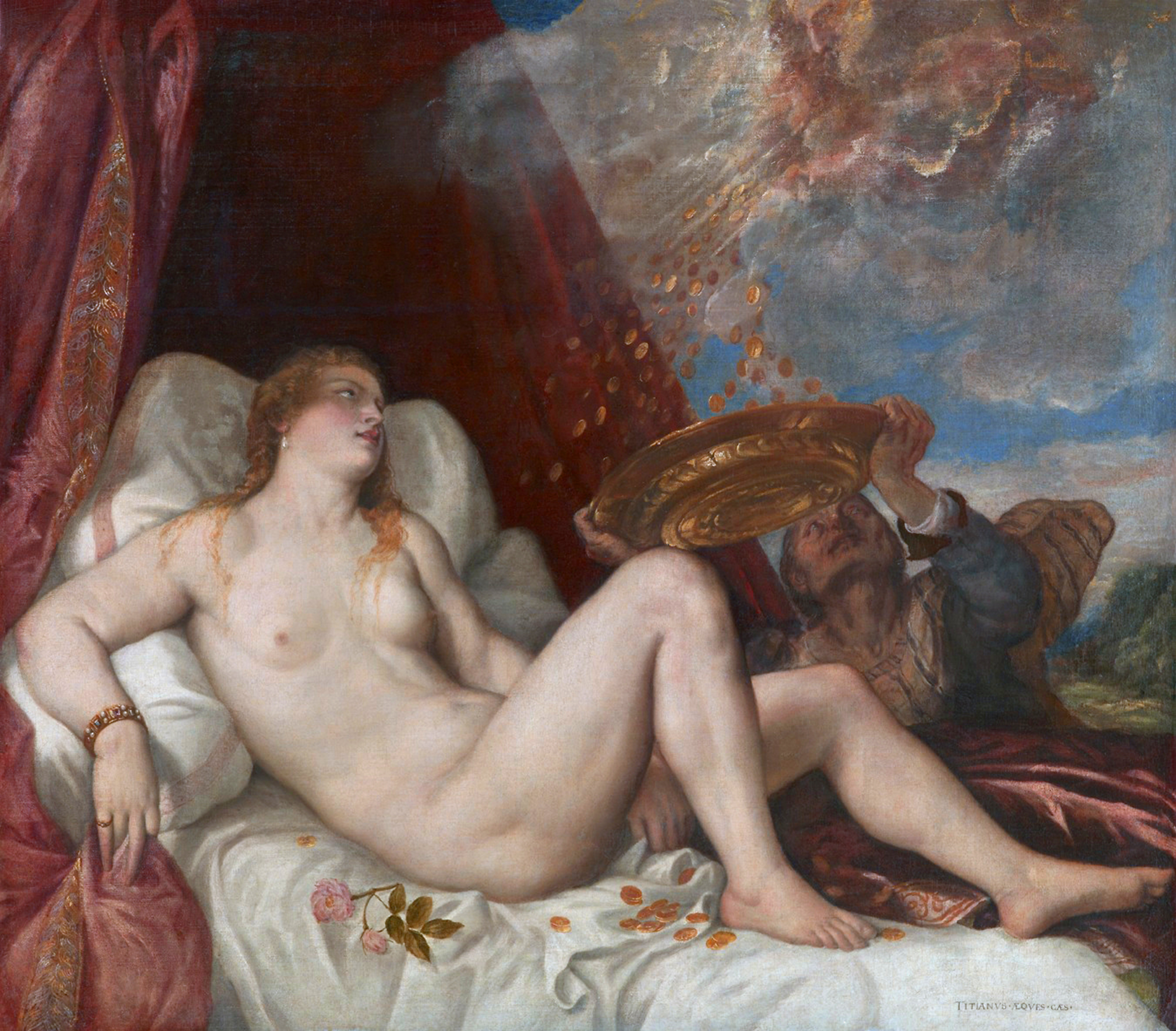 Danaë*oil on canvas*135 x 152 cm*ca 1560*signed b.r.: TITIANVS.AEQUES.CAES.